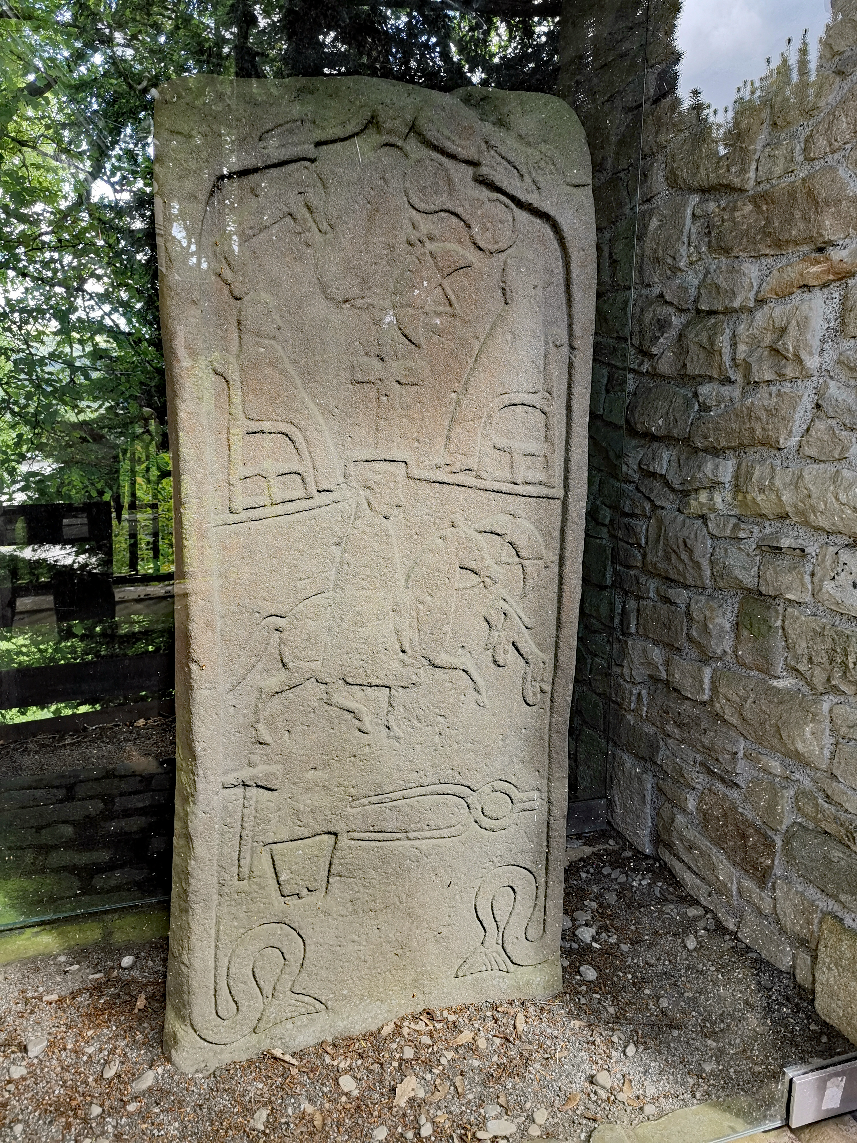 Dunfallandy Stone (Perth & Kinross, Scotland, UK)